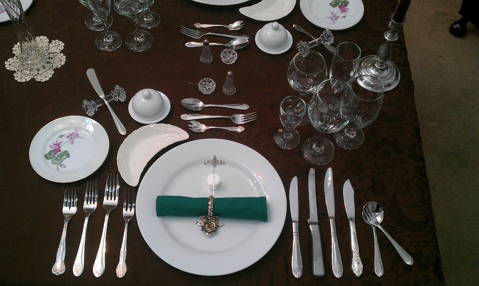 Place setting with place card holder, individual salt cellar and pepper shaker, utensil setting for 8 courses (charger plate, dinner napkin in napkin ring, bread plate, individual butter dish with lid, butter spreader on crystal knife rest, cocktail fork, soup spoon, fish knife and fork and crescent shaped bone dish for fish bones, entrée knife and fork, ice cream fork (for sorbet during palate cleansing course), relevé (main) course knife and fork, salad knife and fork, dessert fork and dessert spoon. Also stemware for water goblet, sherry glass, white wine glass, red wine glass, and champagne flute. Salad course is served in European fashion at end of meal. Sherry is served during appetizer and soup courses, white wine is served during fish and entrée courses, red wine during the relevé (main) course, and champagne during the dessert course. Coffee/tea would be served after the dessert course.